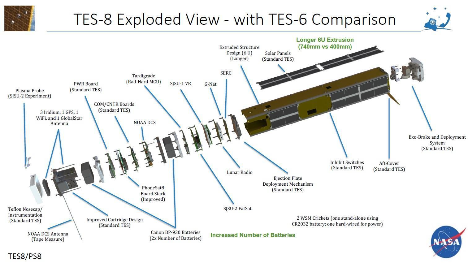 An exploded view of the TechEdSat-8 cubesat. From NASA: "This flight focuses on uplink command capability, and fine control of the Exo-Brake (drag-modulation) to permit accurate non-propulsive de-orbit with a higher temperature capability."